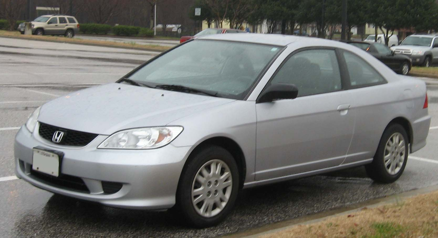 2004-2005 Honda Civic photographed in Fort Washington, Maryland, USA.